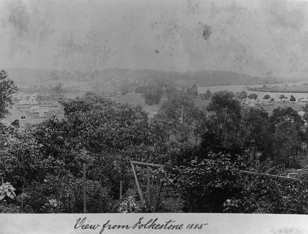 View from the Newstead residence of Folkestone, 1885 View from Folkestone, Newstead, towards the Brisbane River. Folkestone, home of William Perry, was on Breakfast Creek Road. (Description supplied with photograph.).